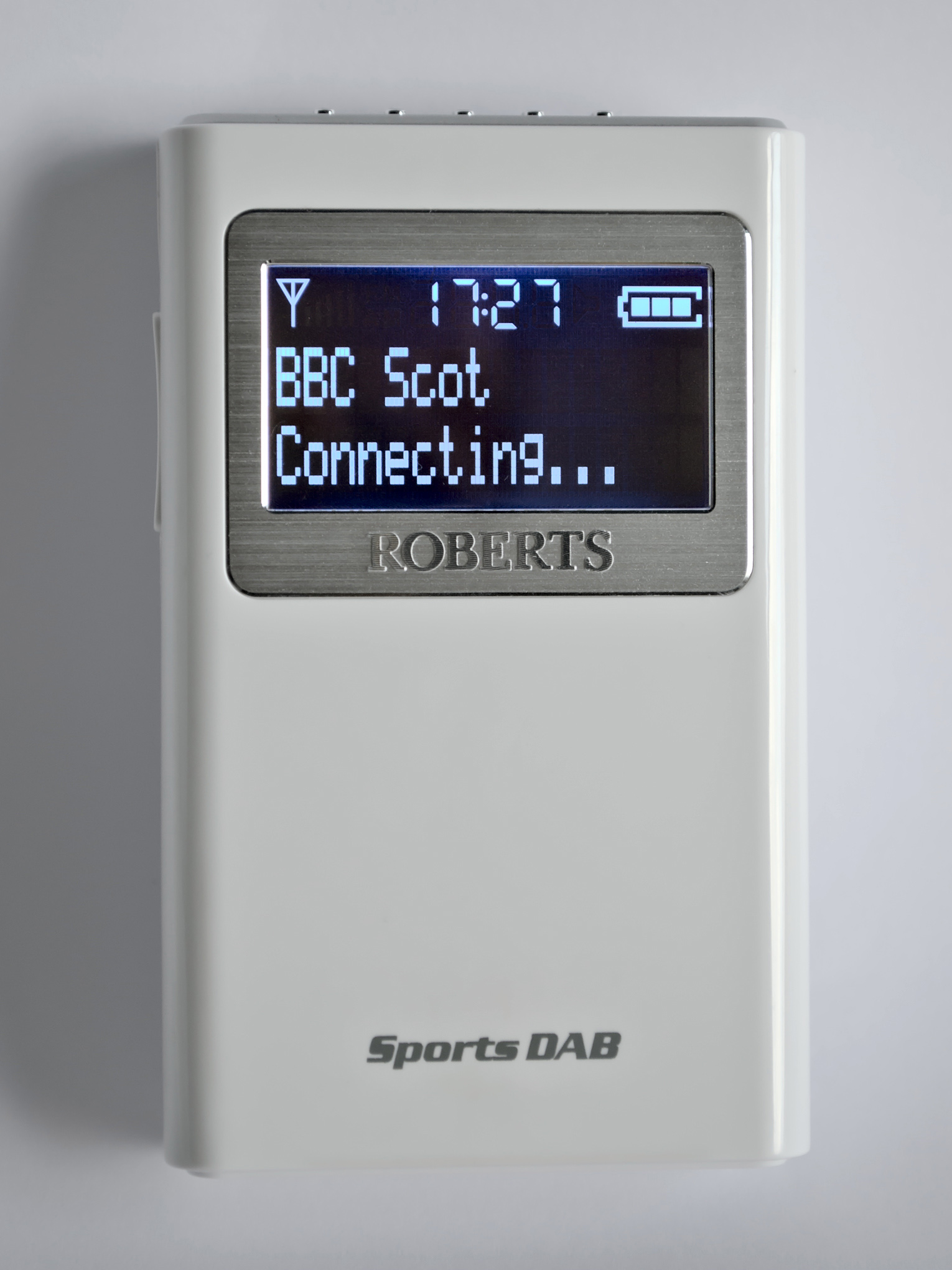 Quick snapshot of a "Roberts Sports DAB 5" - Portable radio with DAB/DAB+ and FM tuners. Headphones not plugged in, shown tuning to BBC Radio Scotland. While its appearance somewhat follows the "noughties glossy white iPod" look, this was actually bought in late November 2016.